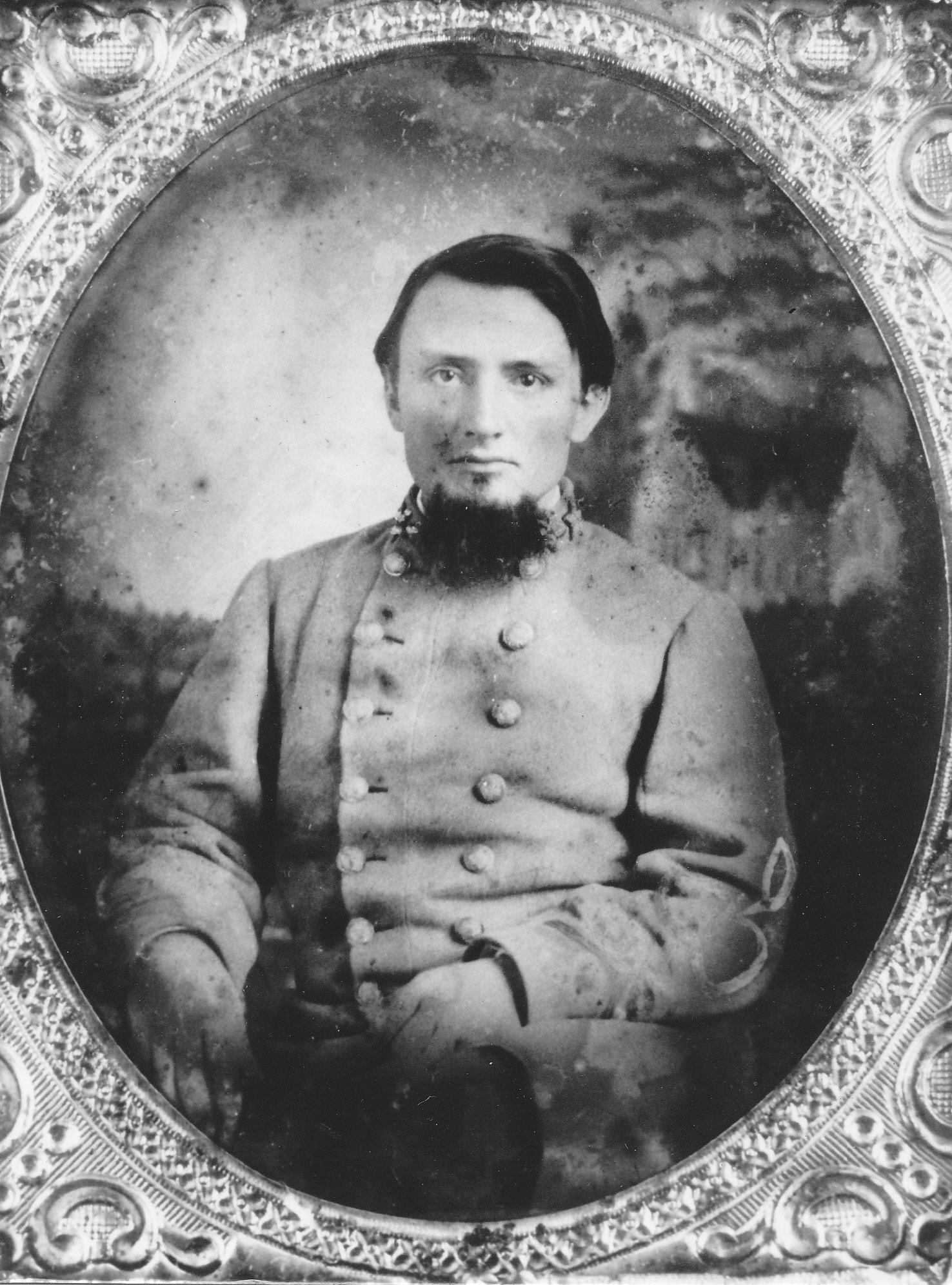 Colonel Vannoy Hartrog (Van) Manning, commander of the 3rd Arkansas Infantry Regiment